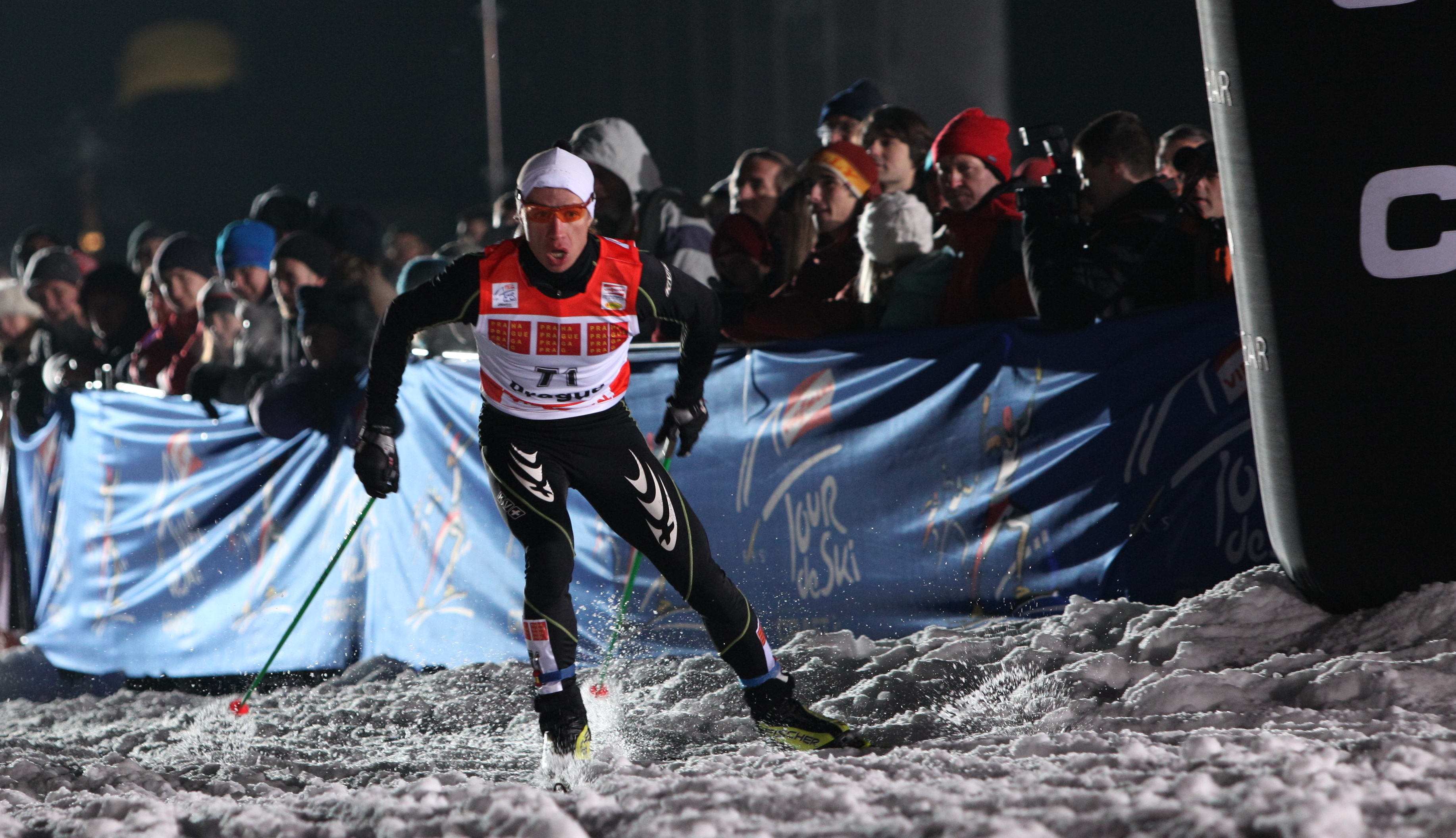 Aliaksei Ivanou (or Alexey Ivanov), Belarusian cross-coutry skier, at Ski Sprint Praha in 2010